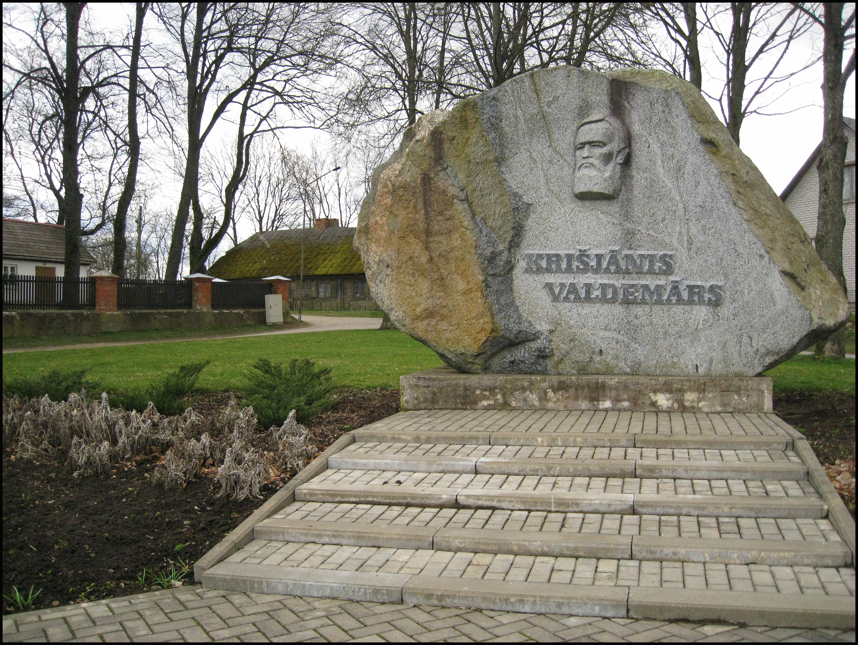 Monument to Krišjānis Valdemārs in ValdemārpilsLatviešu: Krišjāņa Valdemāra piemineklis Valdemārpilī